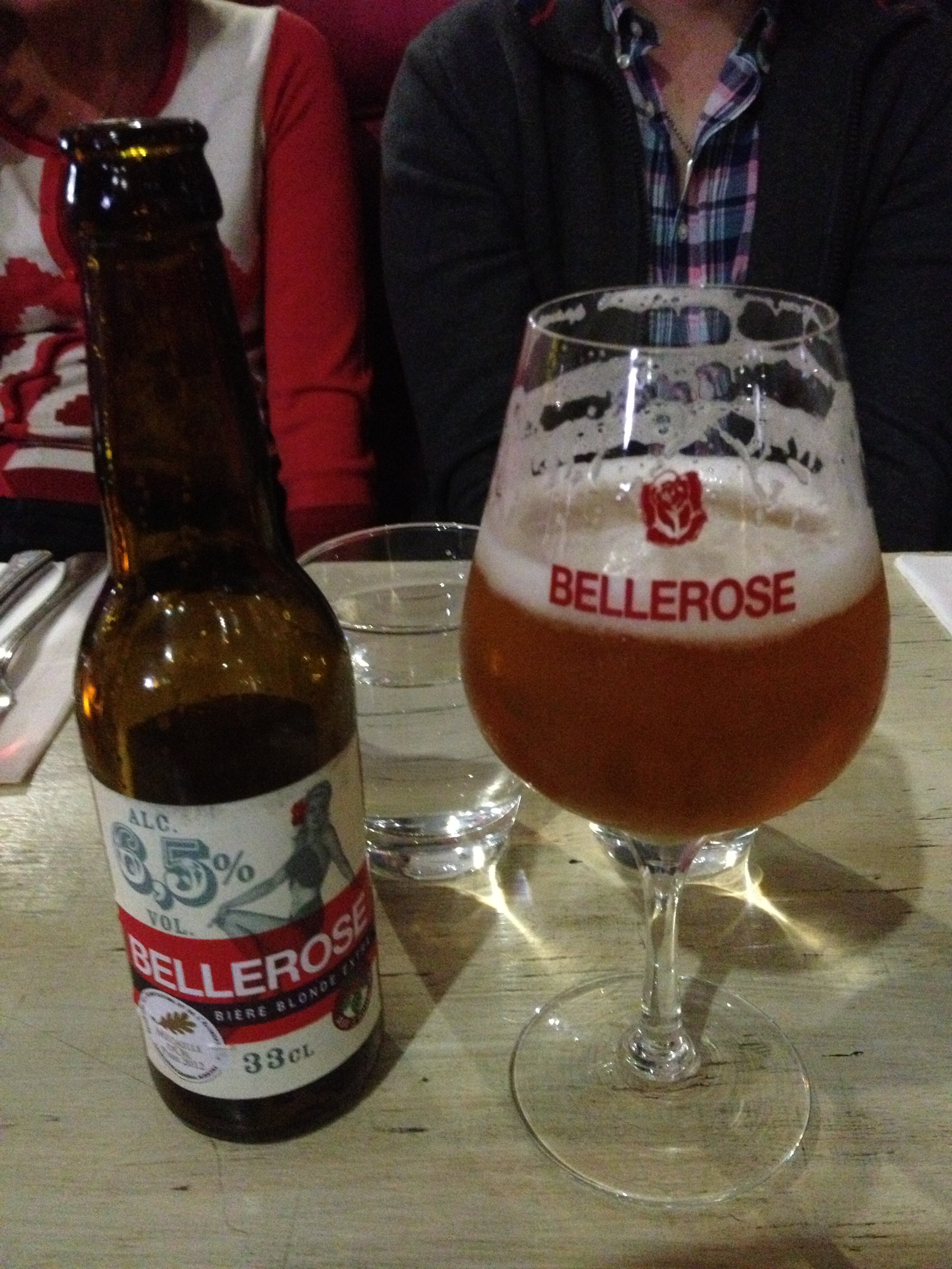 Bellerose beer and glass servied in Australia